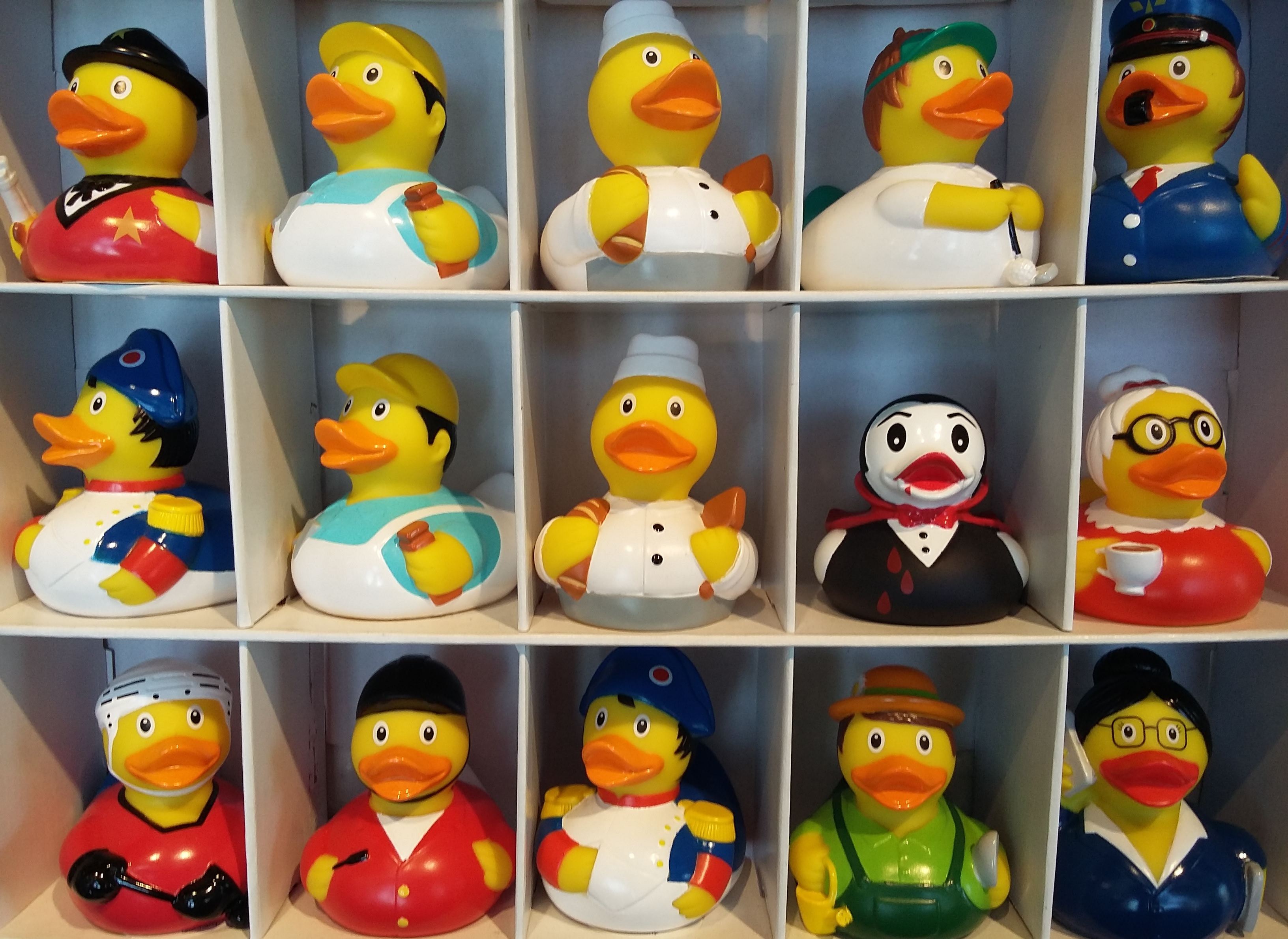 Collection of different rubber ducks